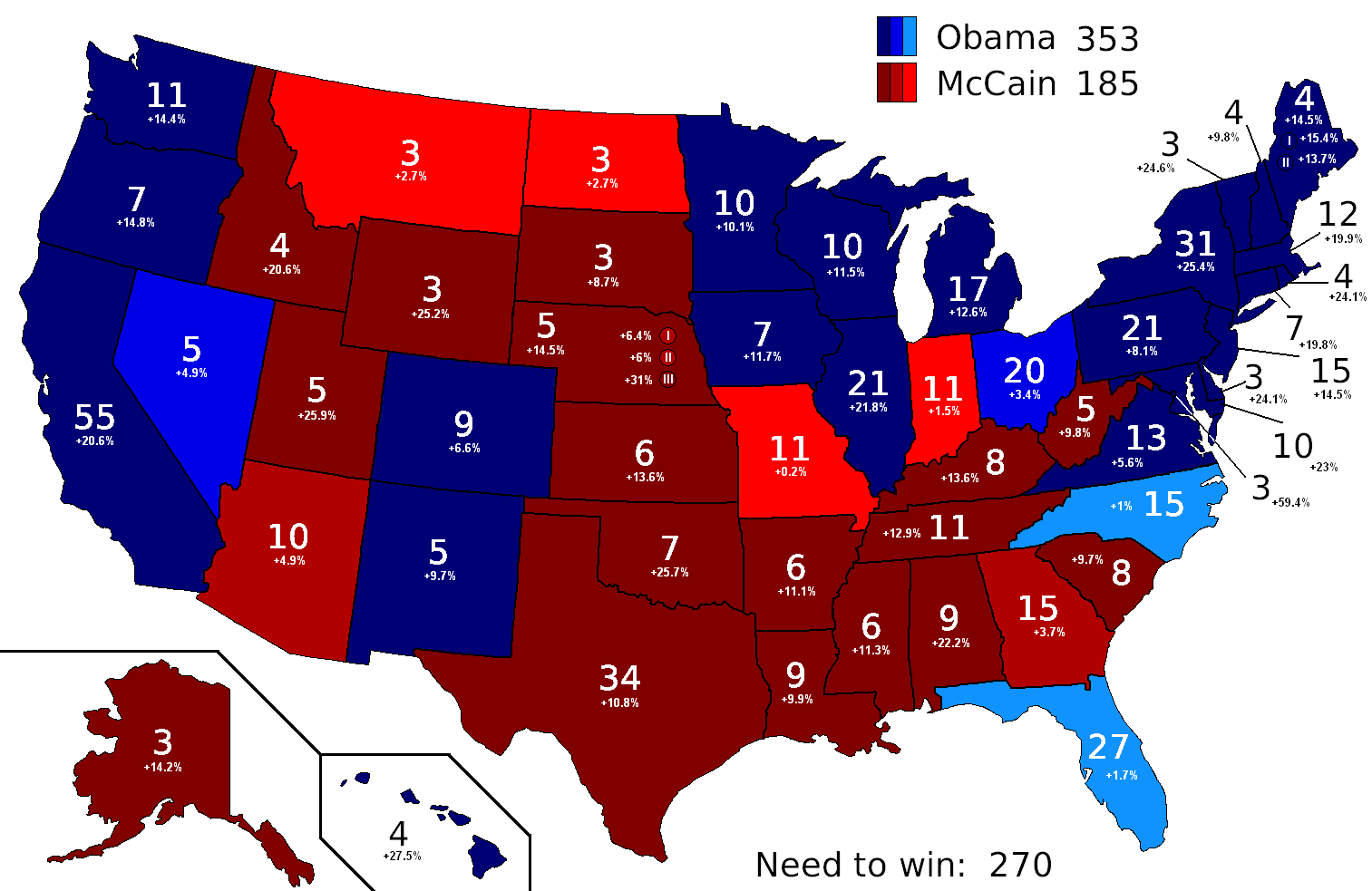 A map of the United States Electoral College for the 2008 Presidential election showing the most up-to-date aggregate polling data as analyzed by Nate Silver's .